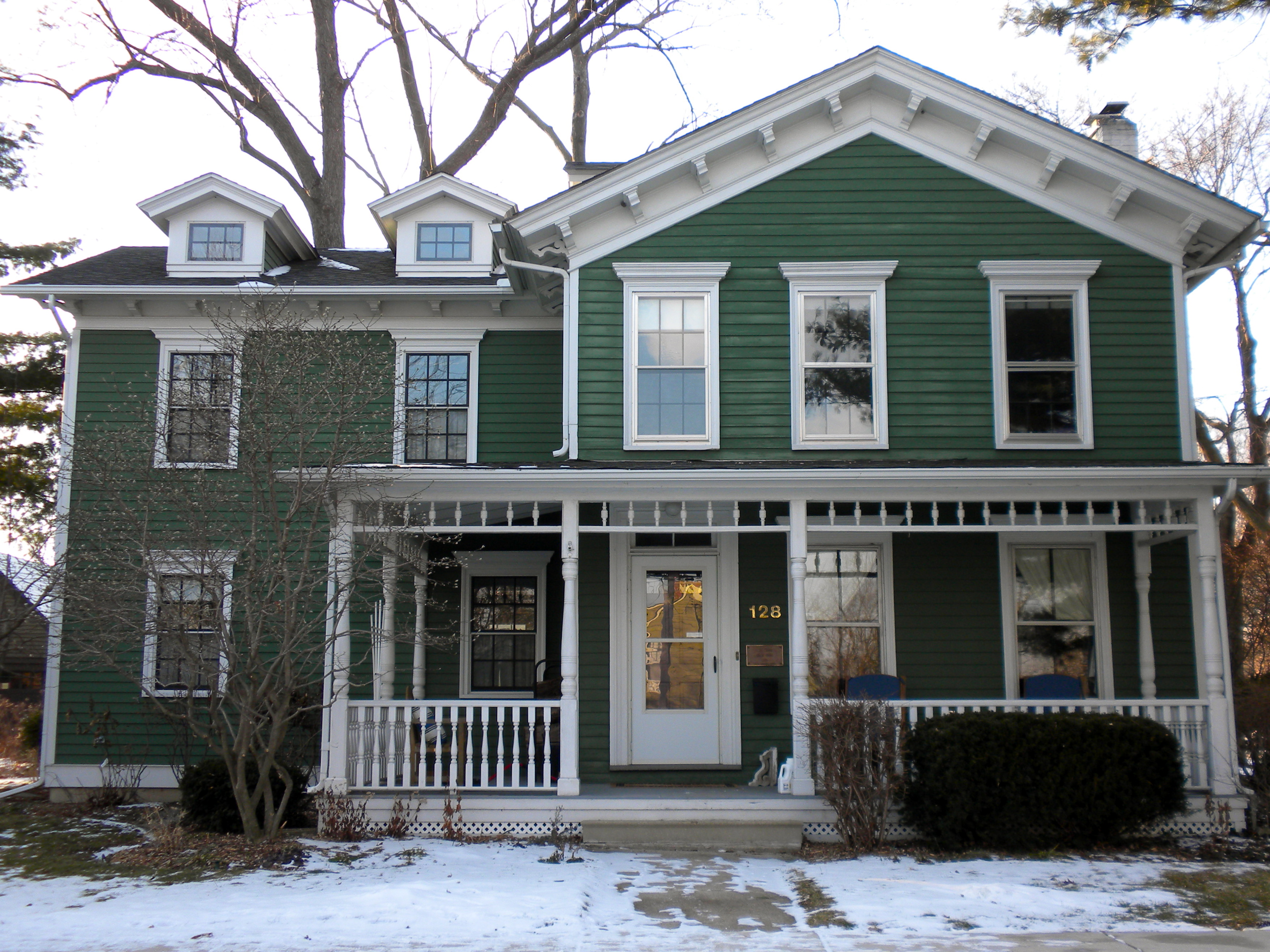 House in the North Geneva Historic District in Geneva, Illinois (Kane County). District became part of NRHP in March 25, 1982 and is roughly bounded by RR tracks, Fox River, Stevens and W. State Sts.